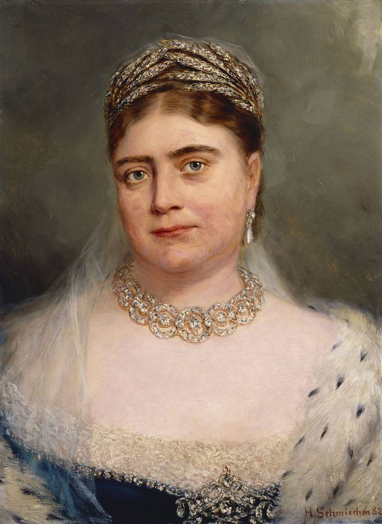 Princess Mary Adelaide (1833-97), Queen Victoria’s cousin, was the youngest of the three children of Adolphus Frederick, Duke of Cambridge (1774–1850), son of George III, and his wife, Princess Augusta (1797–18